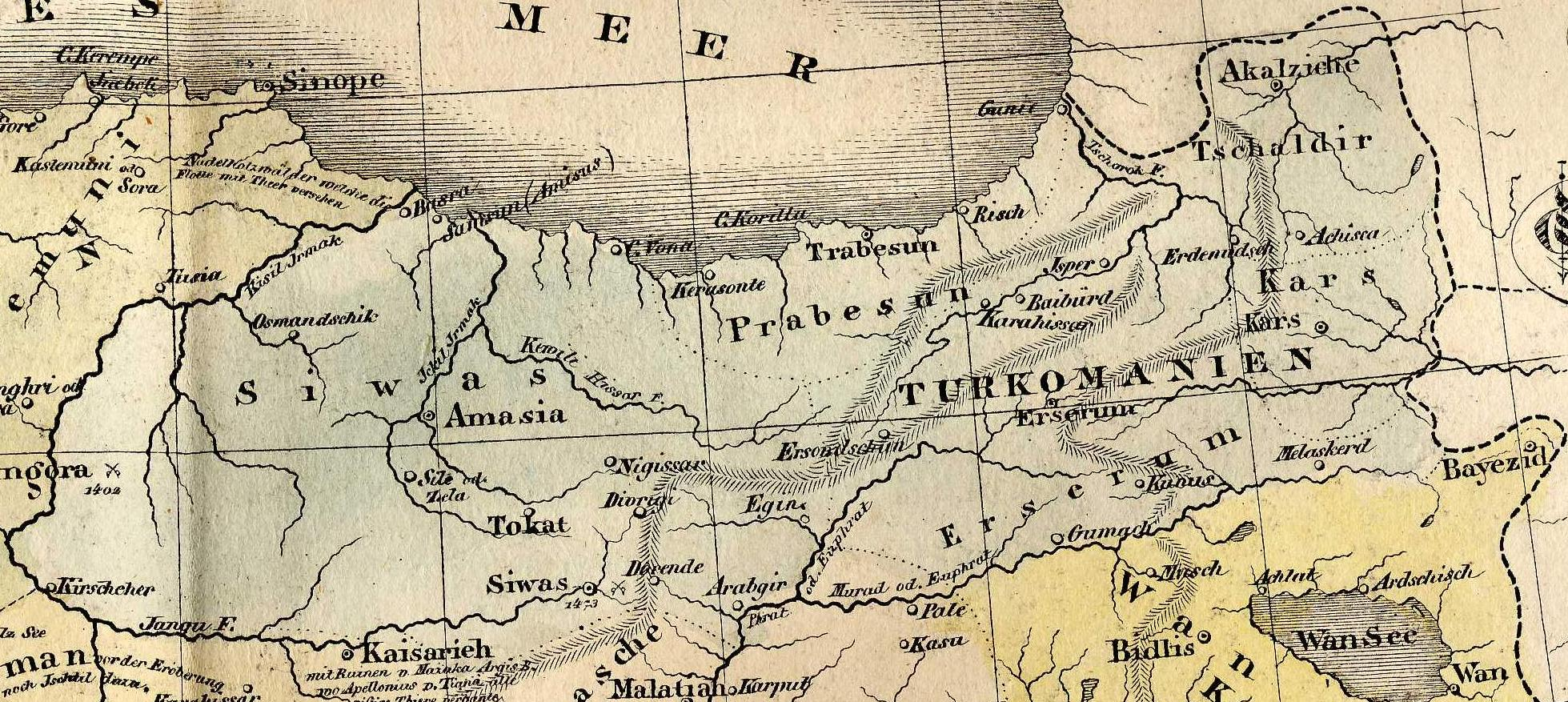 scanned by Olahus. Origin of the map: HISTORISCH-GENEALOGISCH-GEOGRAPHISCHER ATLAS von Le Sage Graf Las Cases. Karlsruhe. Bei Creuzbauer und Nöldeke 1829.